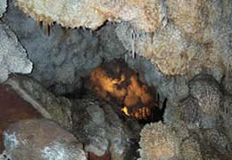 Formations in Jewel Cave National Monument, South Dakota